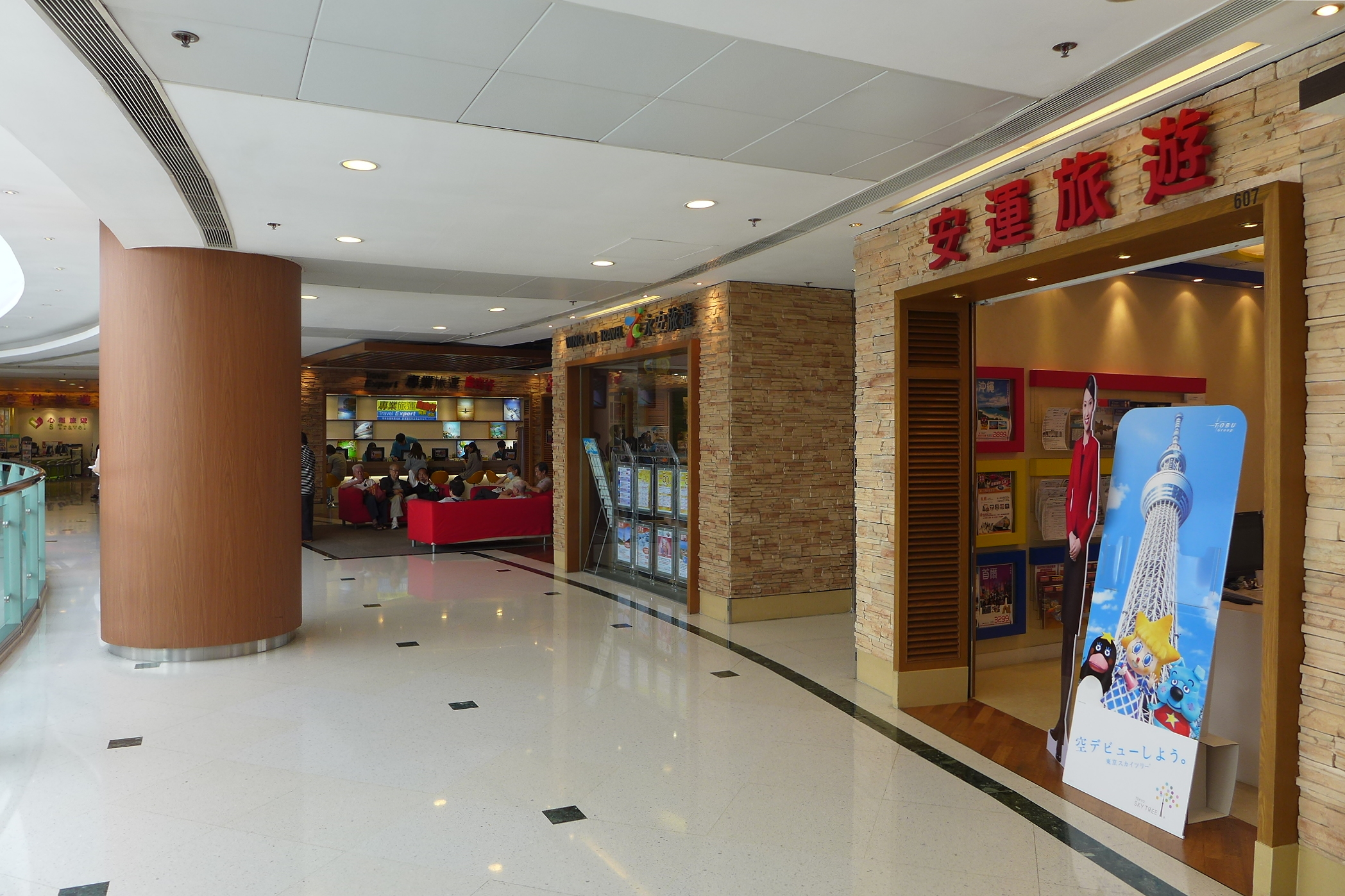 Telford Plaza Phase 2 L6 Travel Agency